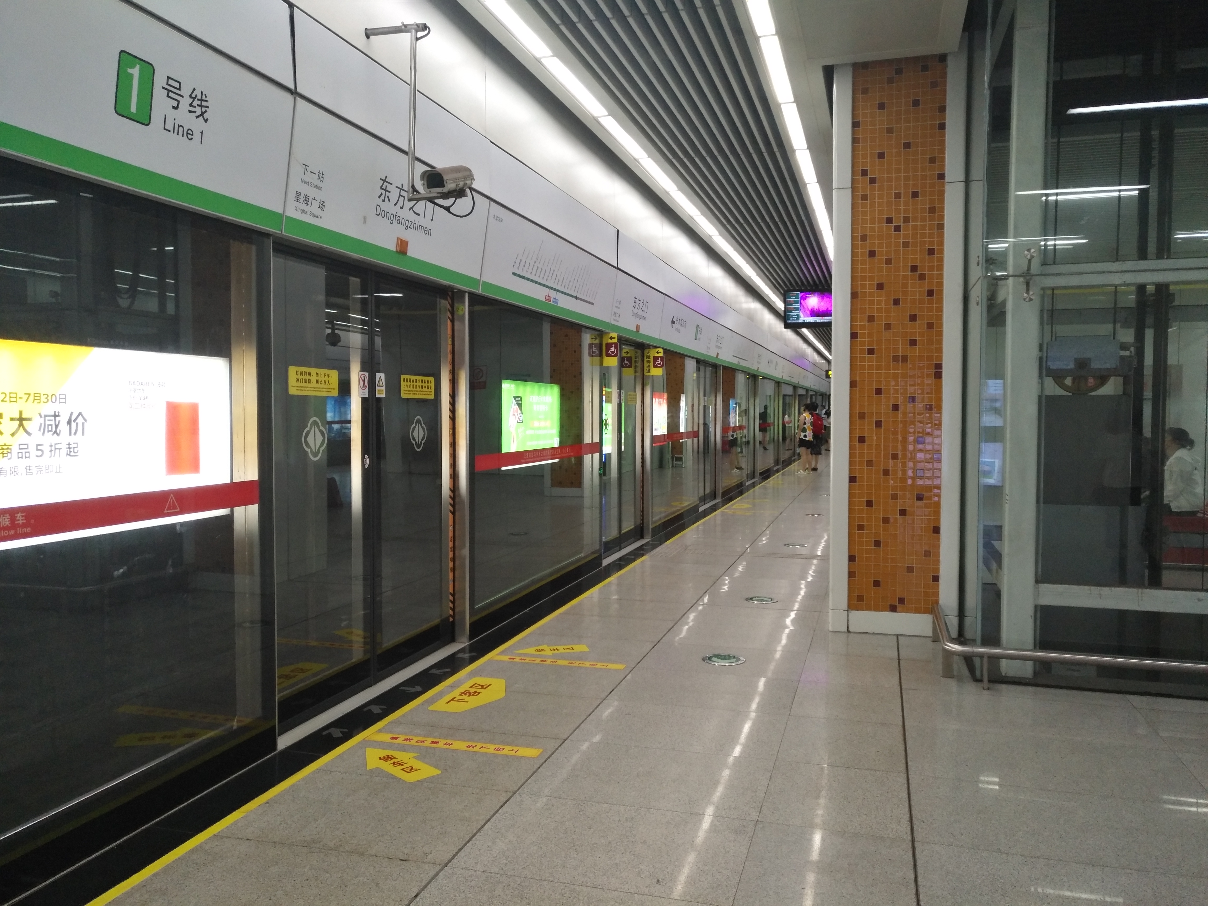 Platform of Dongfangzhimen Station of Line 1, Suzhou Rail Transit